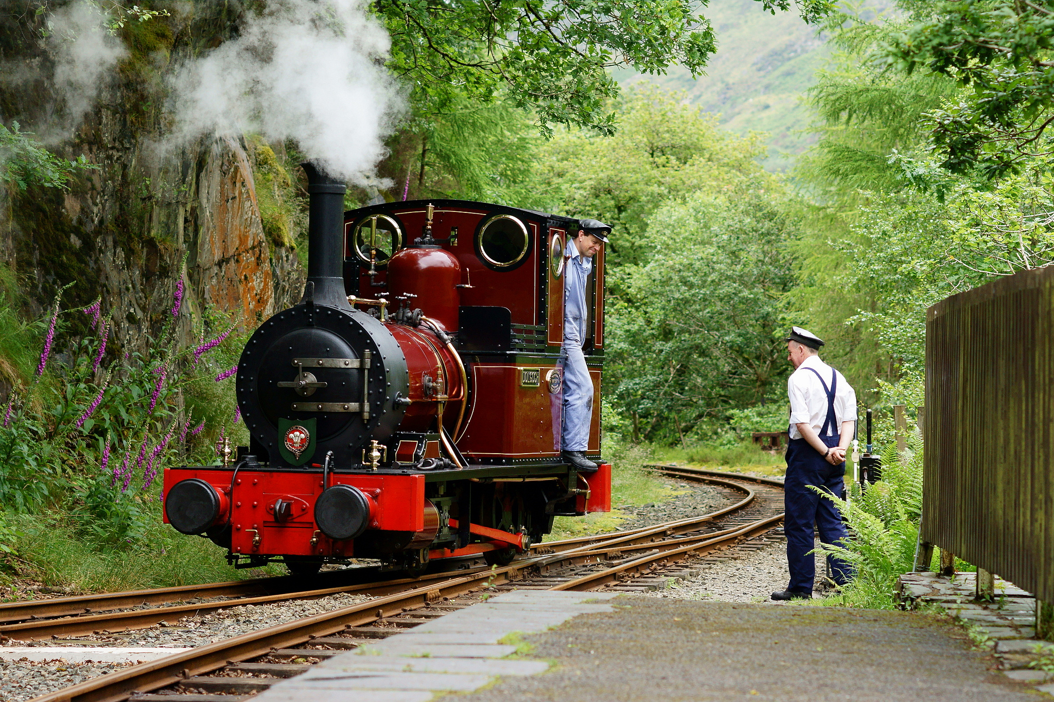 A steam locomotive No.2 Dolgoch at Nant Gwernol railway station, Talyllyn Railway, Wales